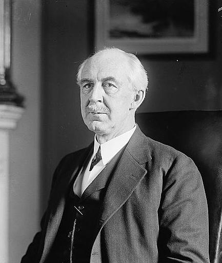 Porter H. Dale as a Member of Congress, 1921